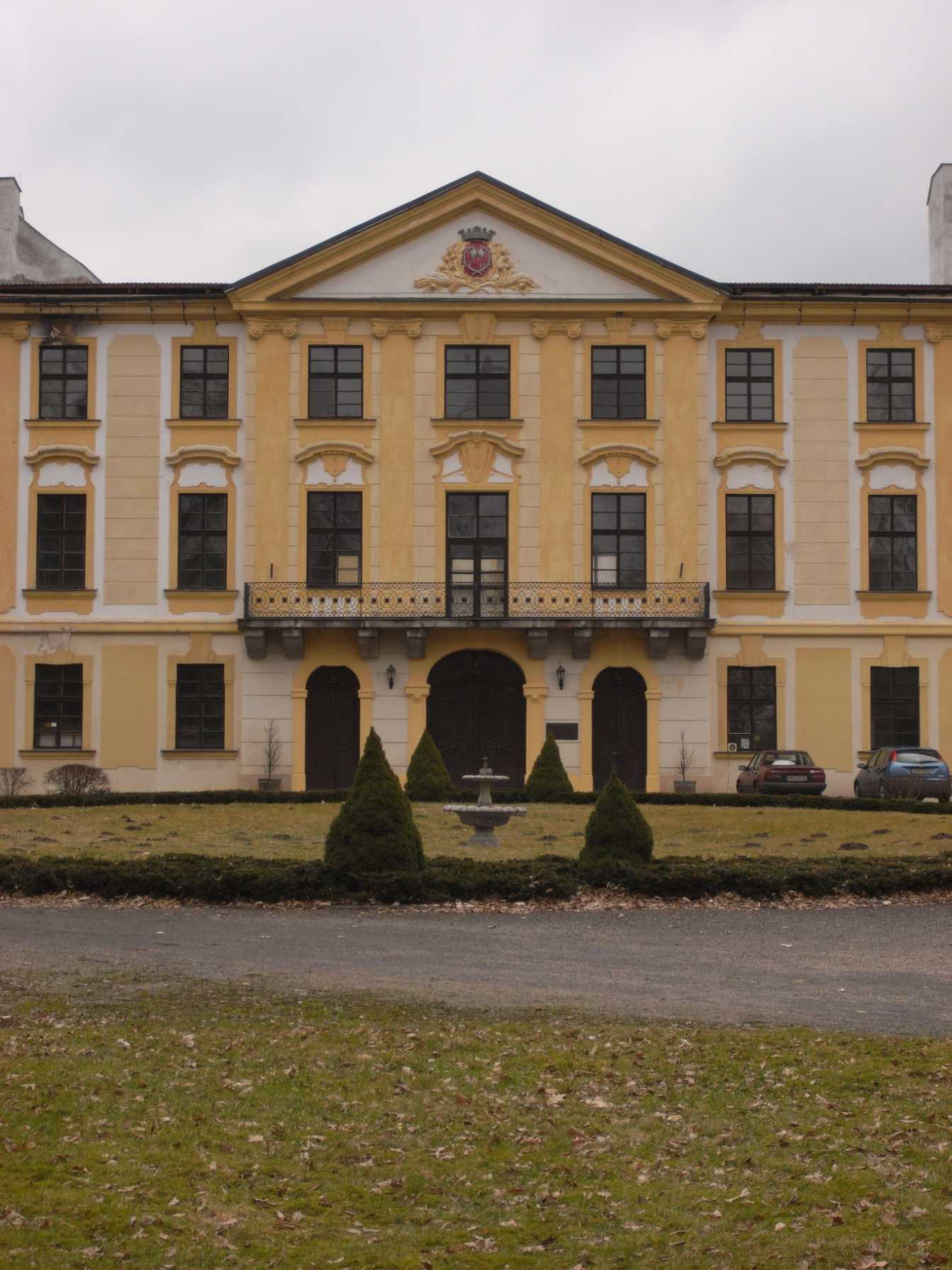 castle Zahrádky, Česká Lípa District (Northern Bohemia, Czech Republic)